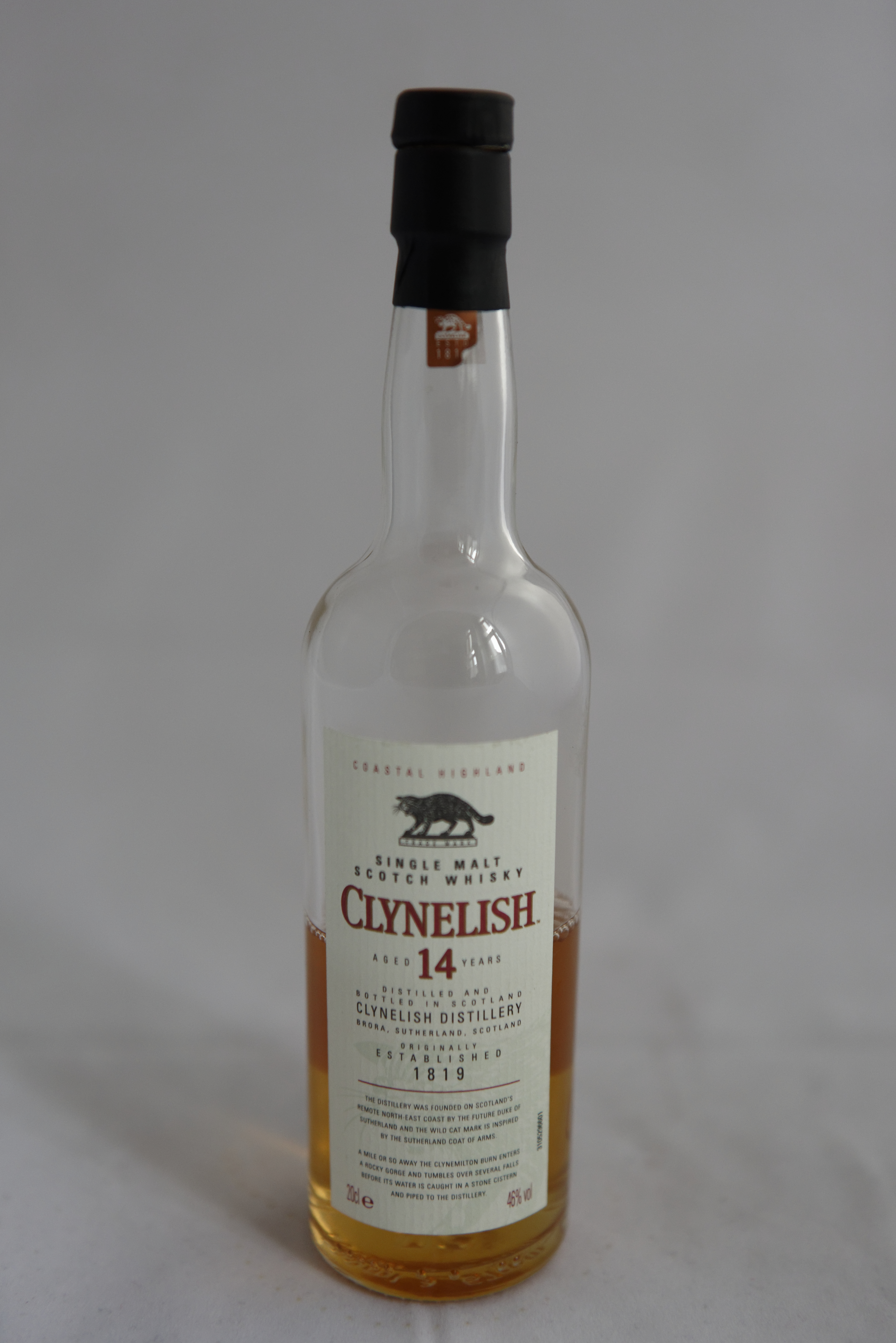 Clynelish Single Malt Scotch Whisky 14 Years